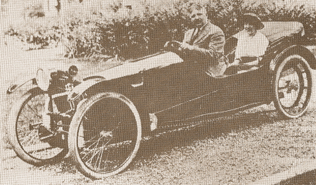 1914 Imp Cyclecar